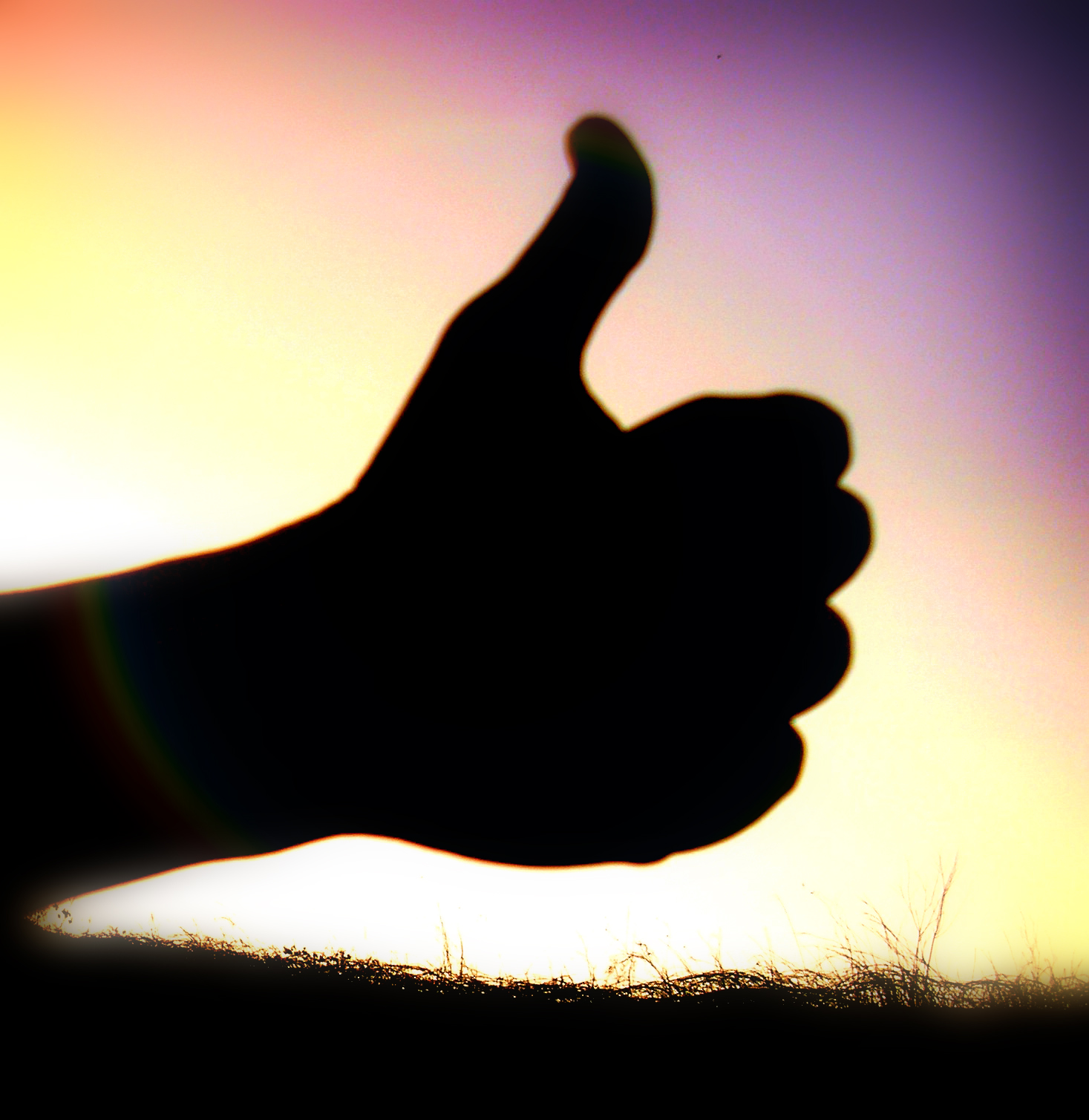 "Thumbs up" picture, mostly uploaded for Tim Starling's "get well soon" card.